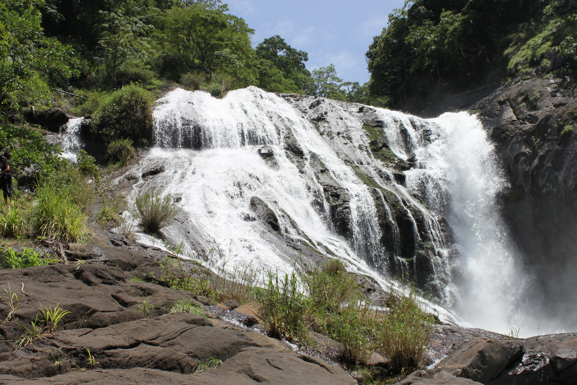 Karuvara water fall in Silent valley buffer zone Palakad, Kerala.